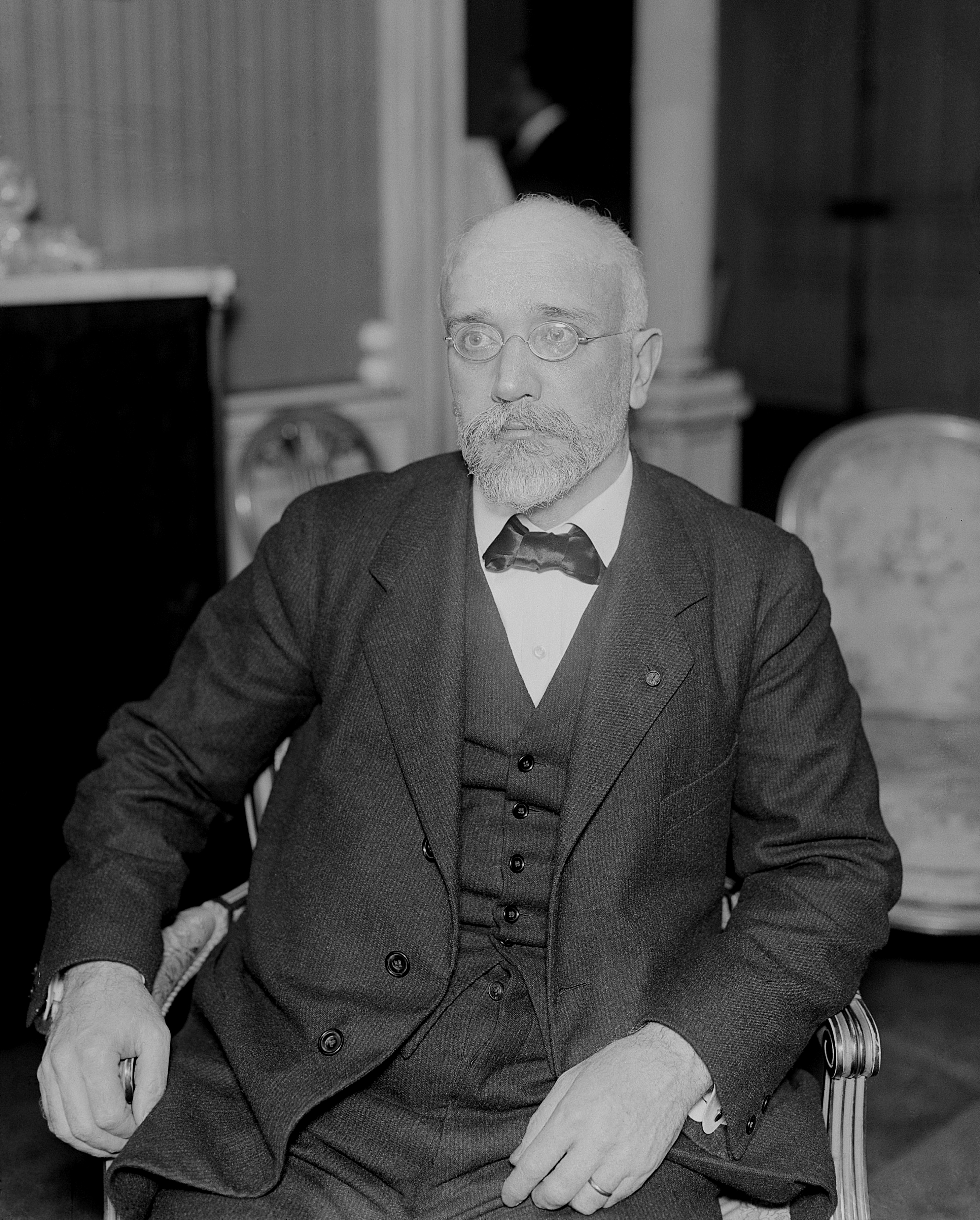 Eleftherios Venizelos (1864 - 1936), as president of the greek parliament, 1917.